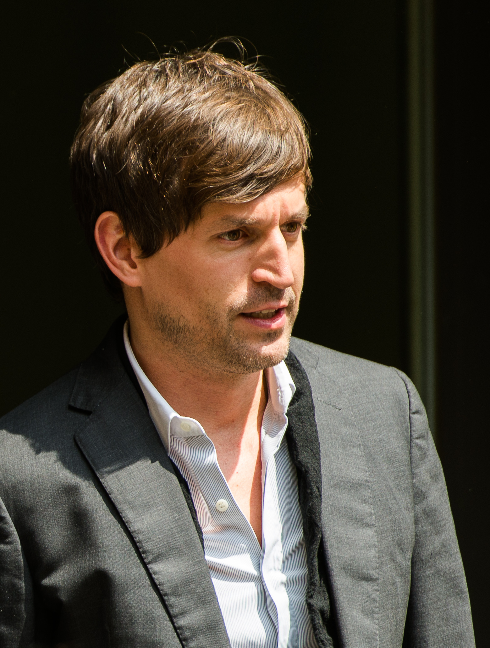 German architect Ole Scheeren in Frankfurt (May 2013).